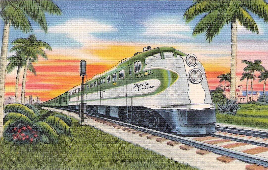 Postcard for the train "Florida Sunbeam". The train was a partnership between Seaboard Air Line Railroad, Southern Railway and the New York Central Railroad.